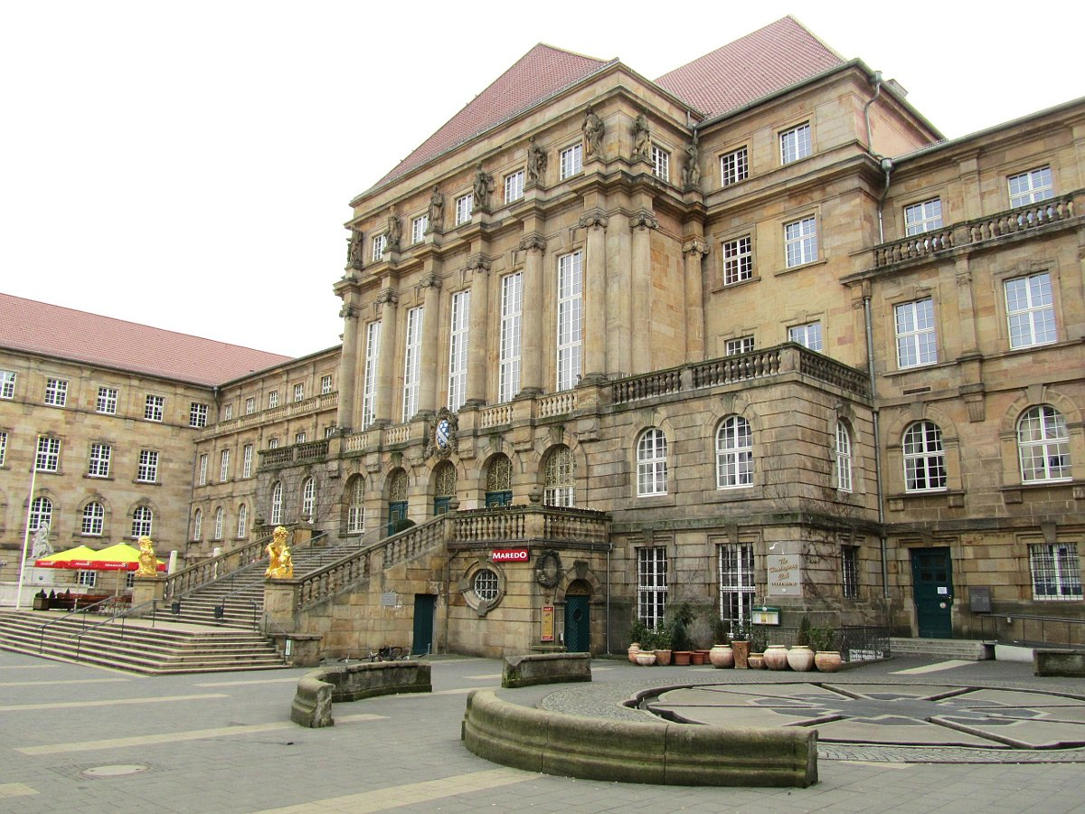 Germany / Cassel: town hall